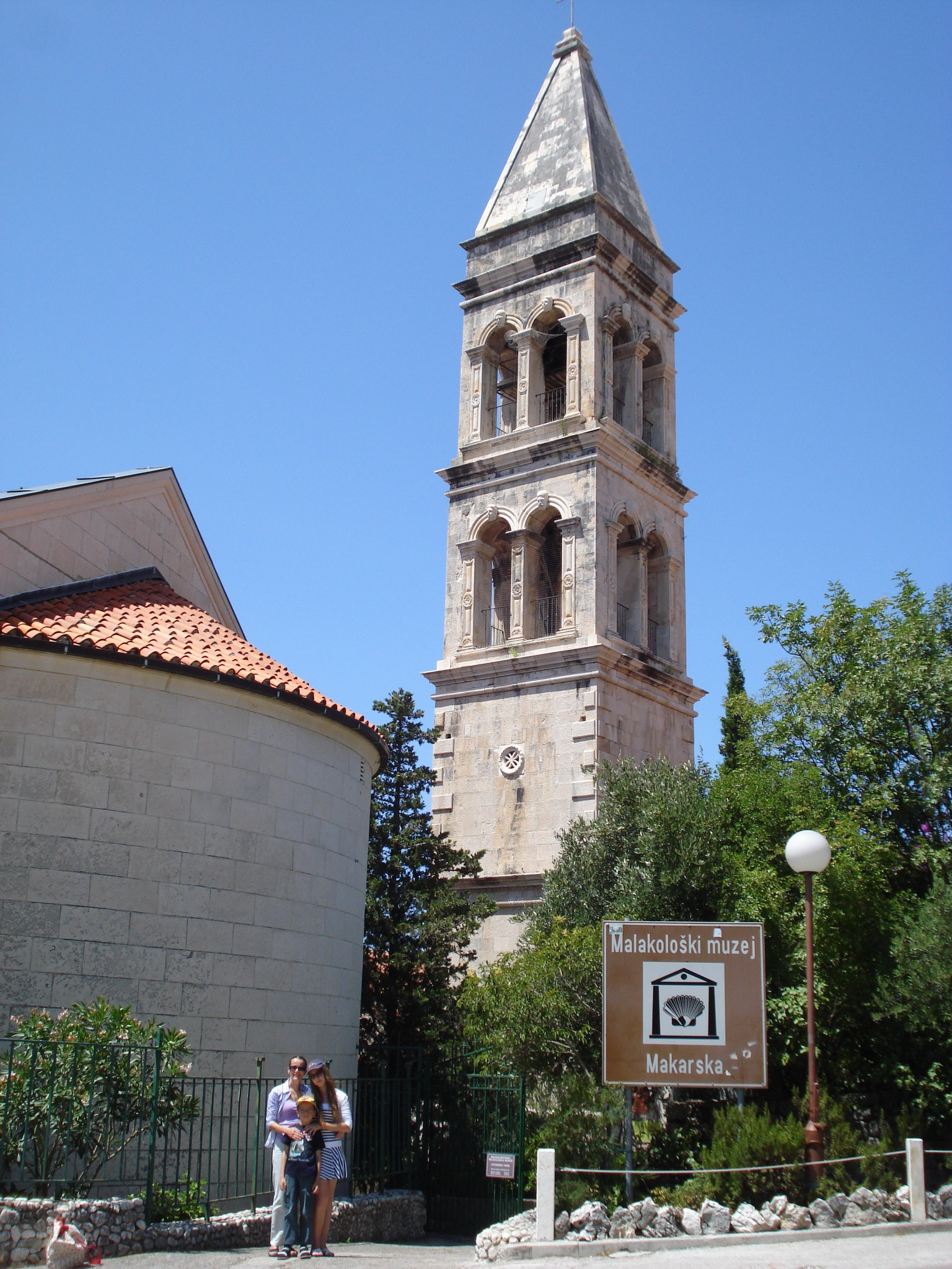 Entrance to Malacological Museum in Franciscan Monastery, Makarska, Croatia